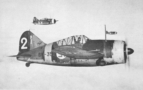 A Finnish Air Force Brewster B239 formation in Continuation War.